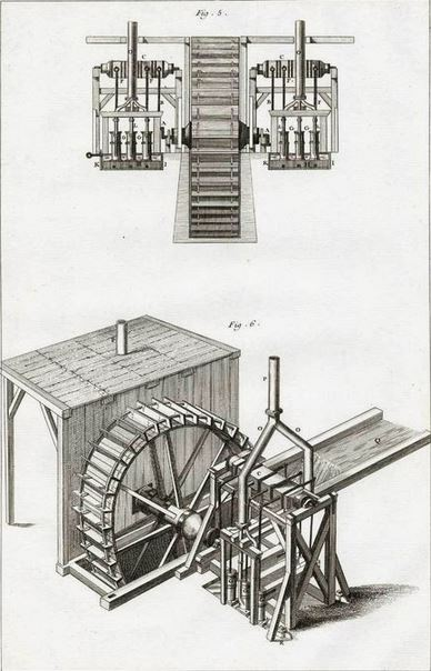 Machine hydraulique, modèle de Nymphenburg